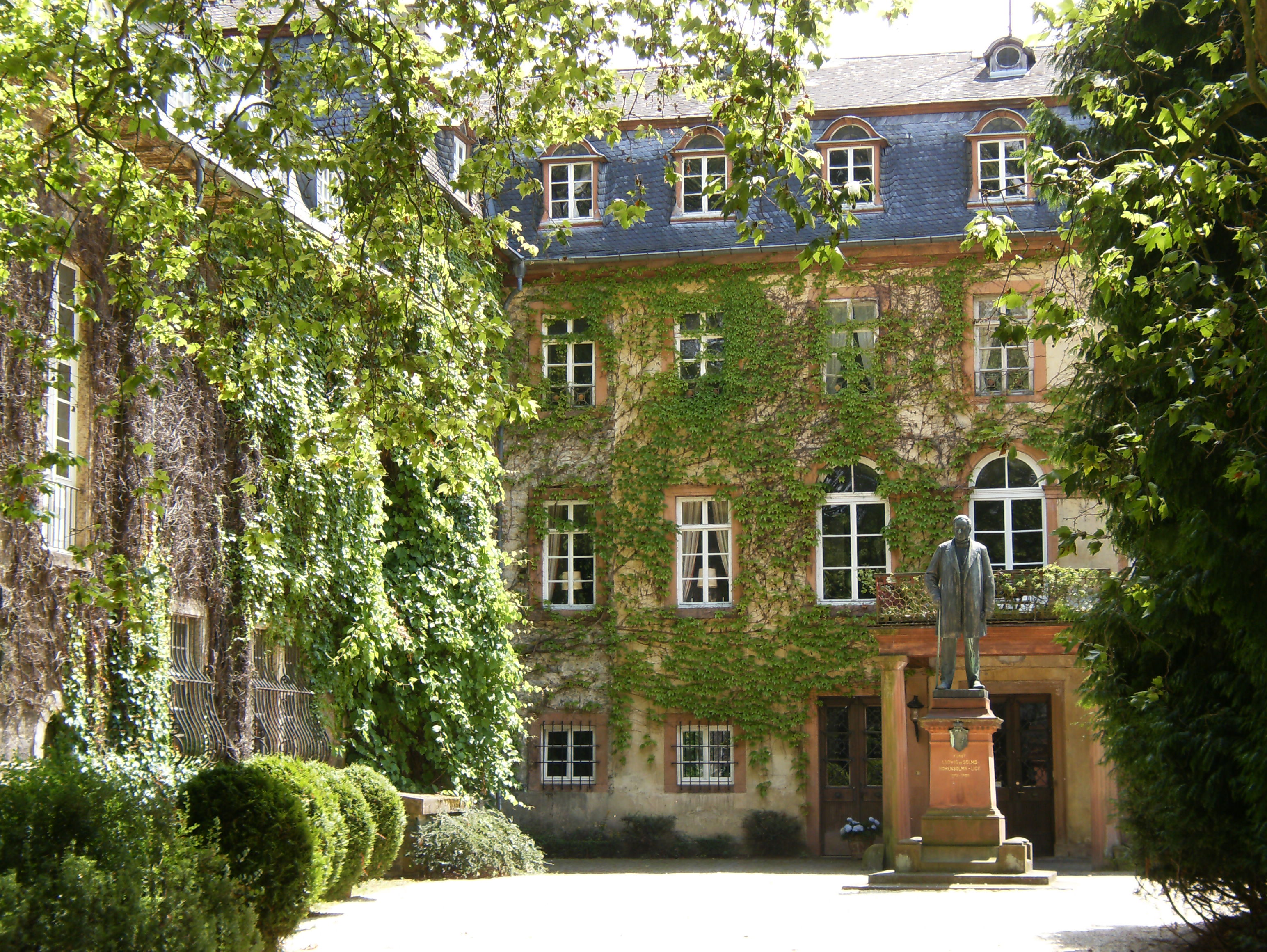 Lich, castle yard with Ludwig Fürst zu Solms-Hohensolms-Lich monument.